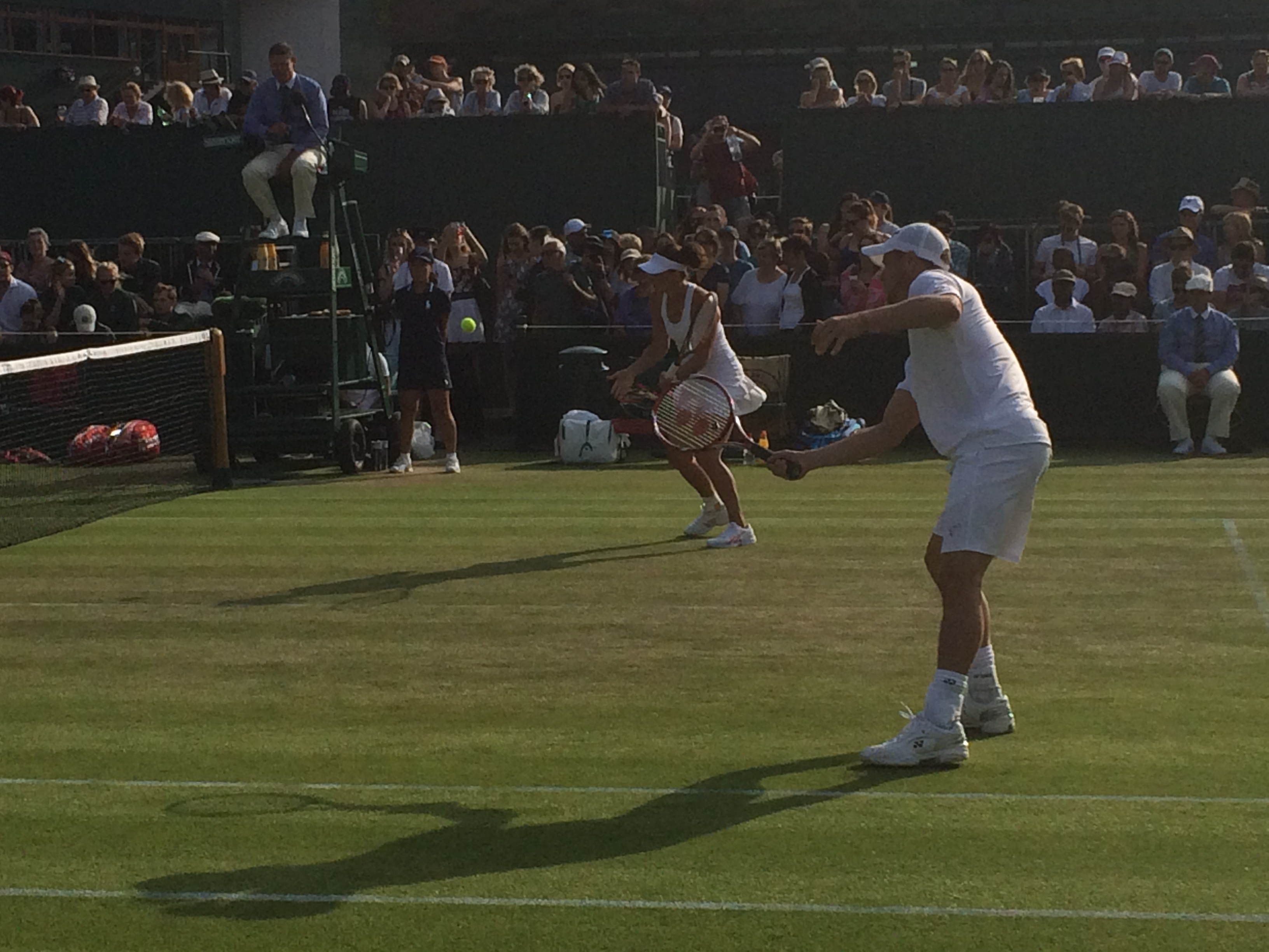 Lleyton Hewitt and Casey Dellacqua warming up ahead of their mixed doubles first round match at Wimbledon 2015.